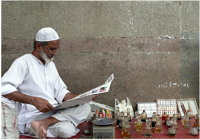 Itar (herbal perfume) vendor on the street of Hyderabad, India